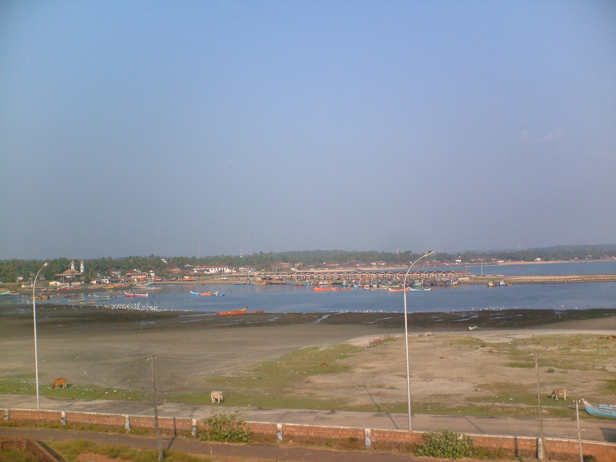 Mappila Bay is a natural harbor situated in Ayikkara Kannur town, Kerala state of South India.